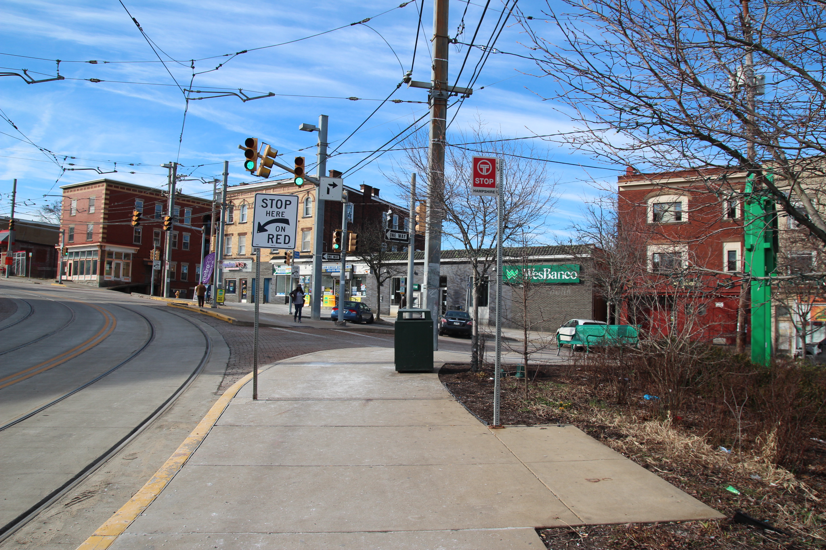 The outbound stop at the Hampshire station on the Red Line. There is no platform, passengers alight onto the curb.